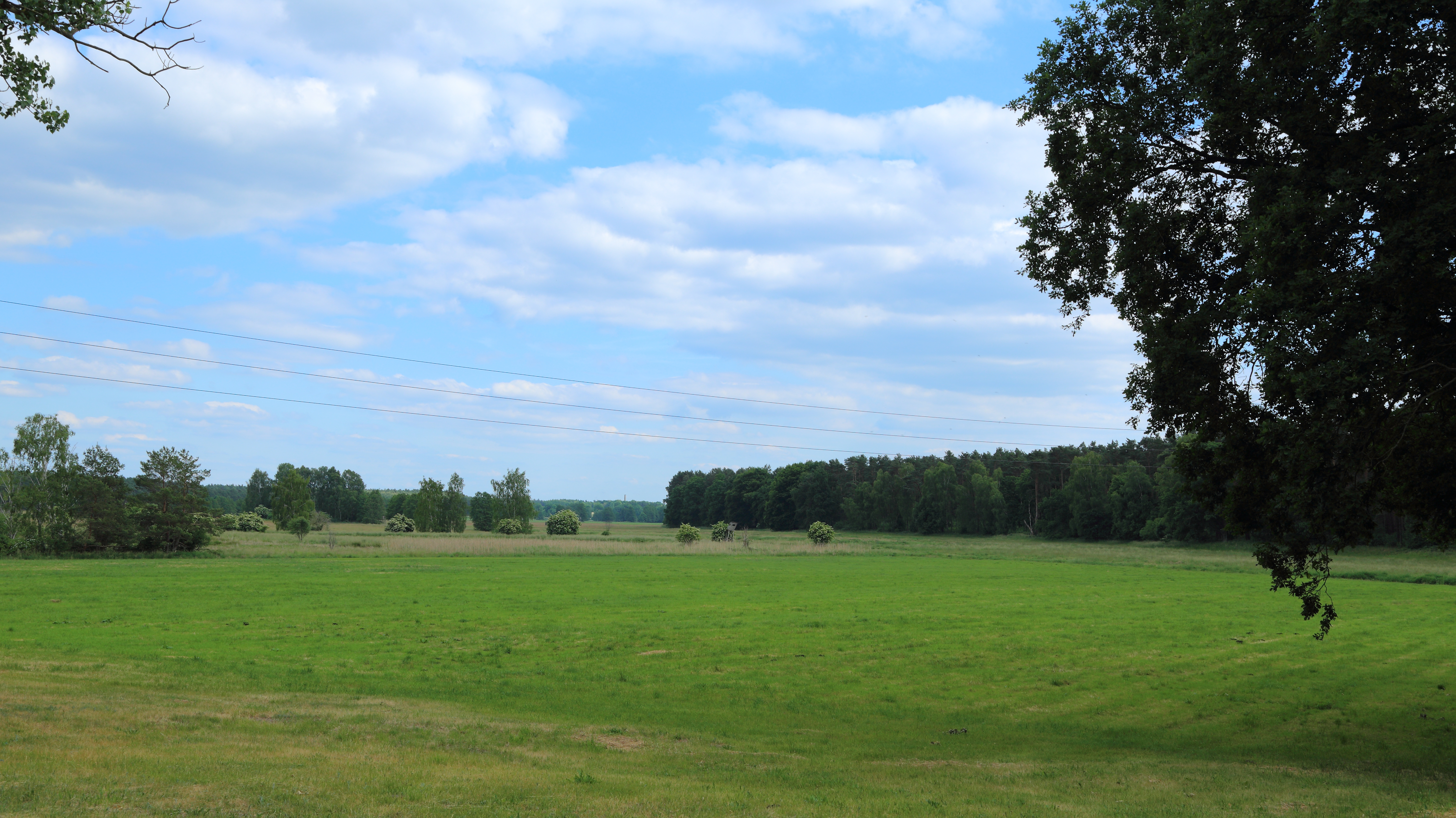 Meadows and forests between Goschen and Damme, districts of Lieberose, Landkreis Dahme-Spreewald, Brandenburg, Germany. This area belongs to northern part of the nature reserve (Naturschutzgebiet/NSG) „Stockshof - Behlower Wiesen“.